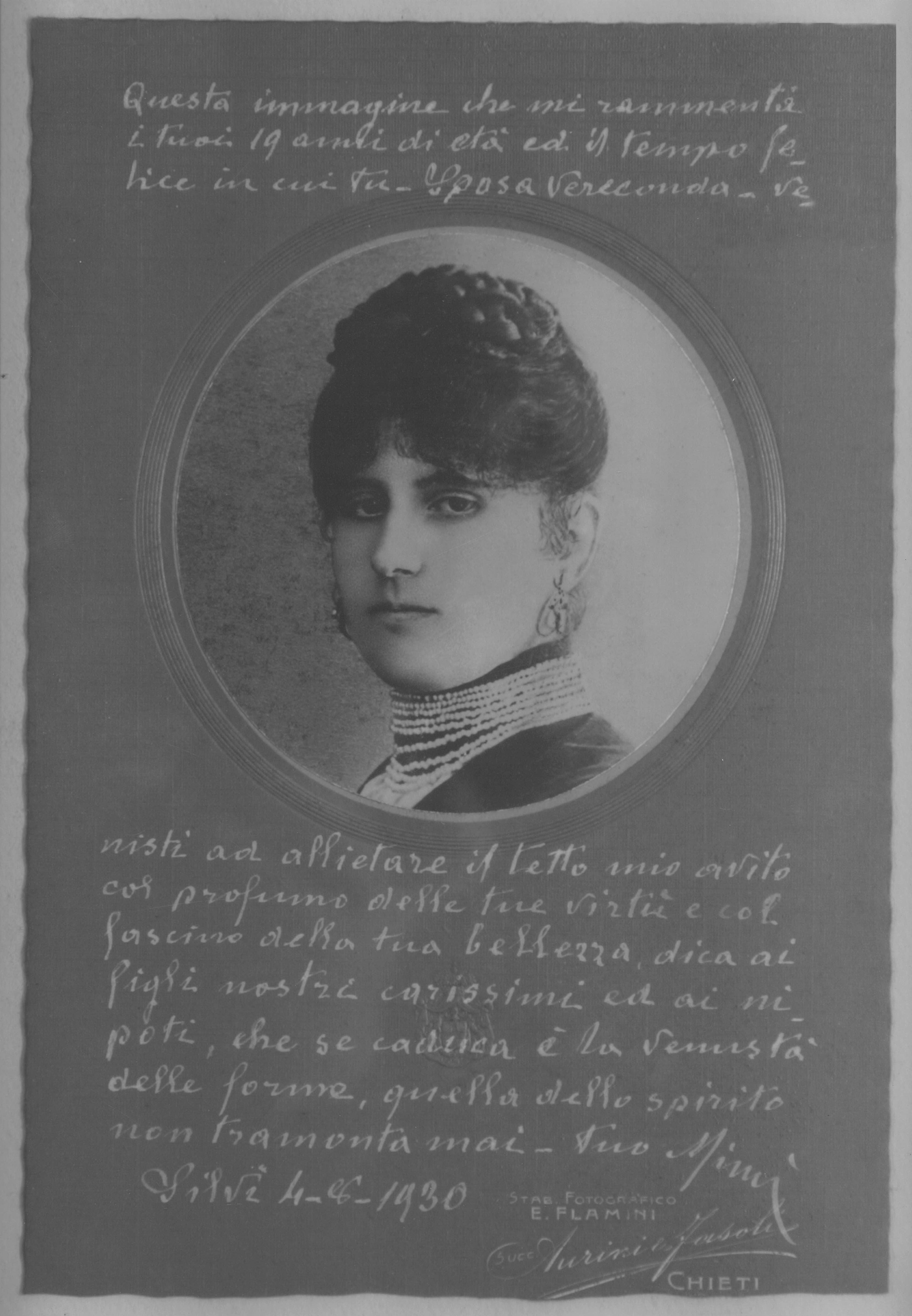 An image of Urania Valentini